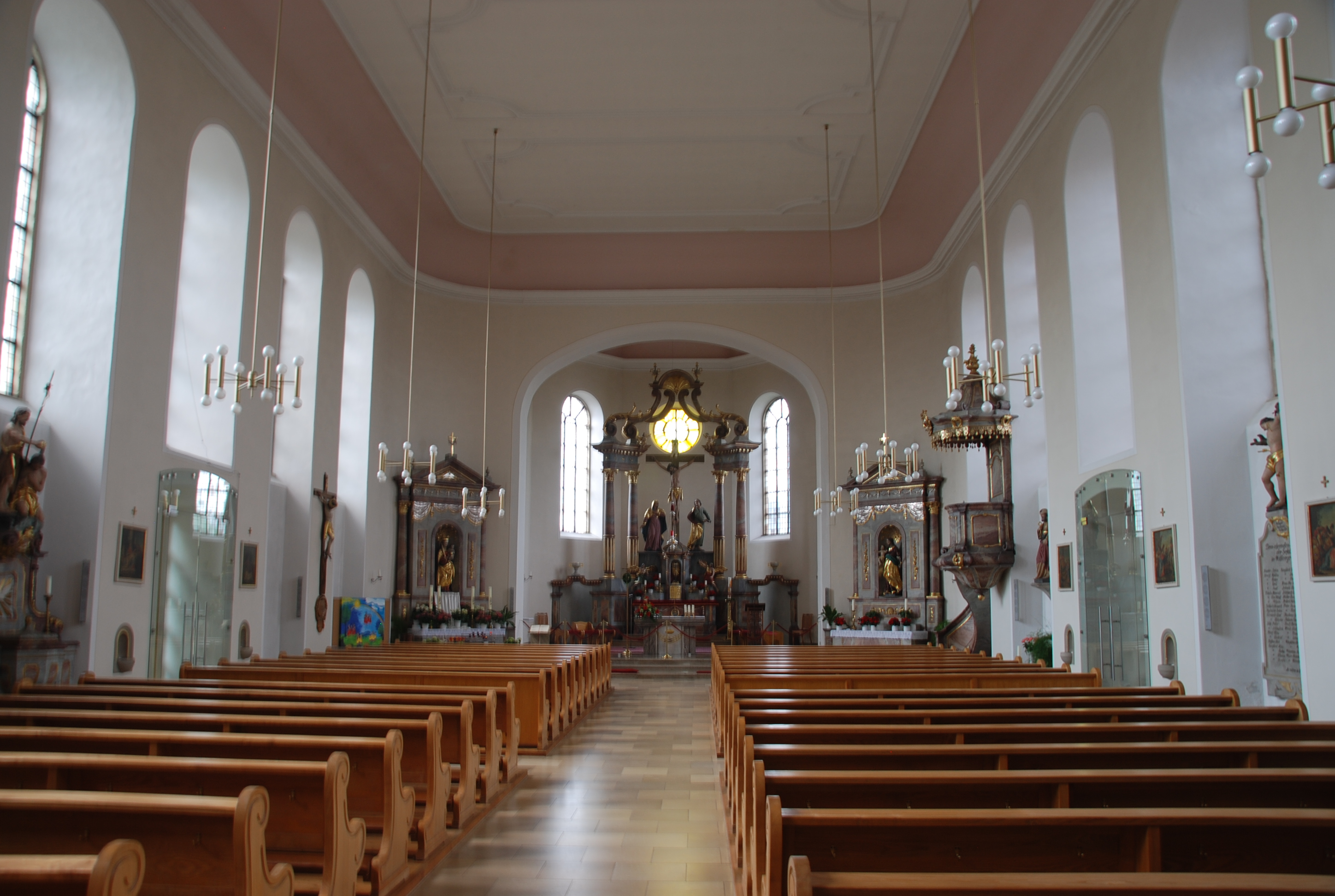 Huttenheim Church Inside